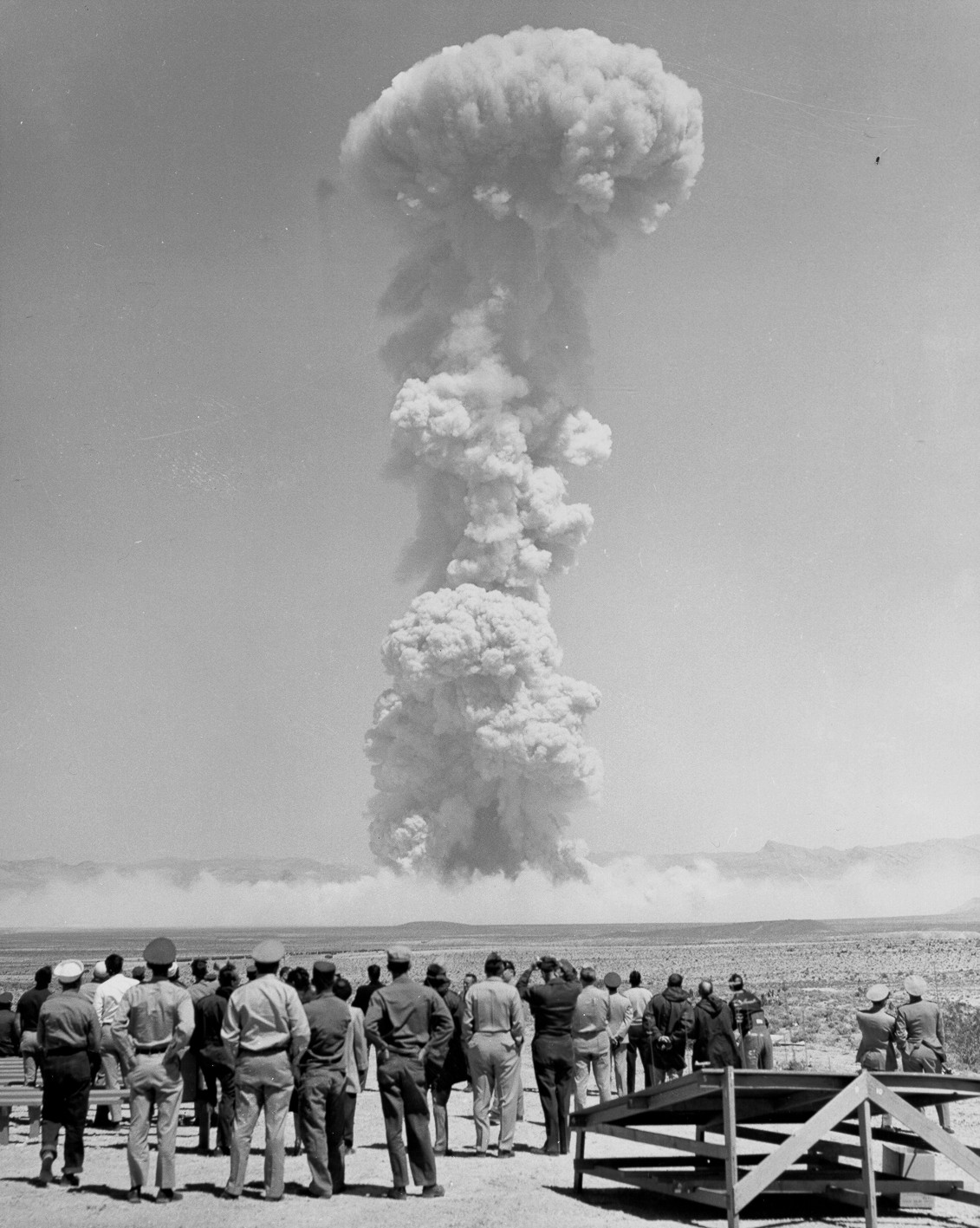 Operation Teapot - MET (Military Effects Test)